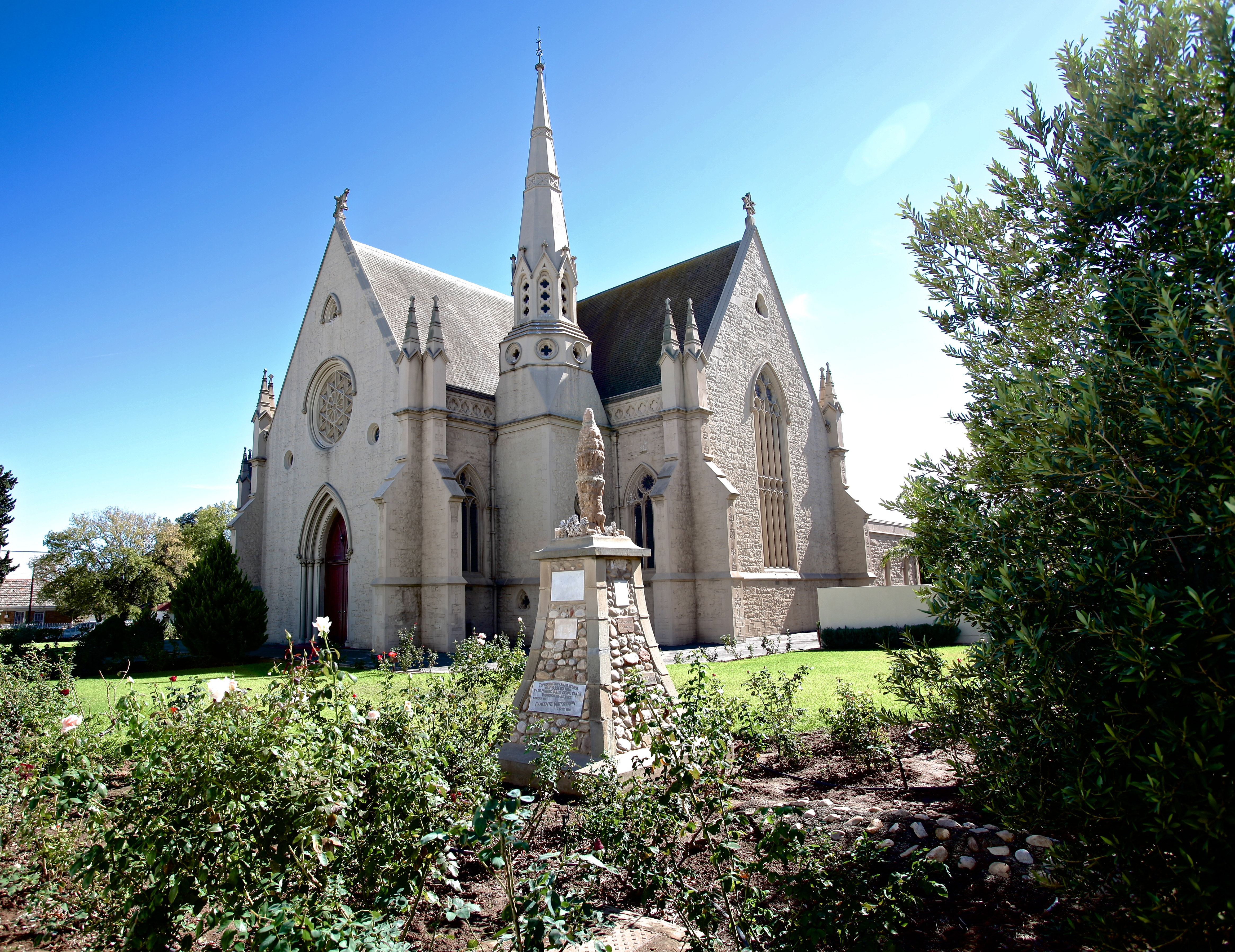 Dutch Reformed Church, High Street, Oudtshoorn This media shows a South African Protected Site with SAHRA file reference 9/2/068/0023.